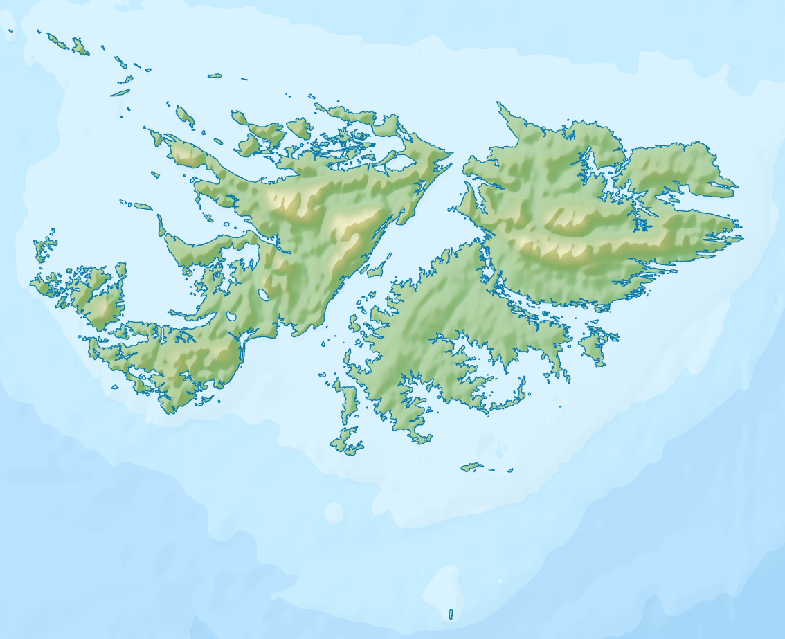 Relief Map of Falkland Islands. Geographic limits of the map: N: 50.9° S S: 53.0° S W: 61.5° W E: 57.5° W